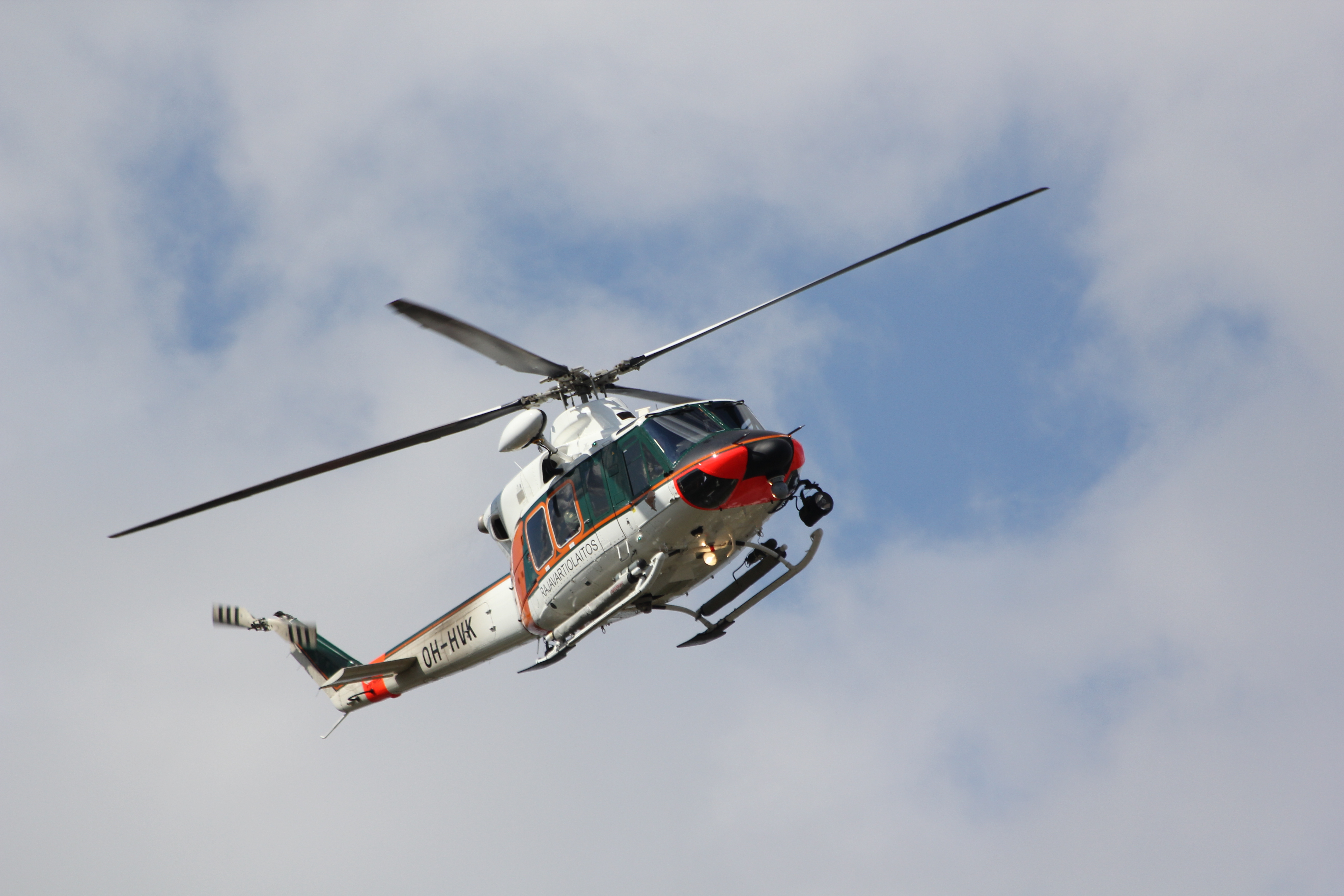 Finnish border guard Agusta Bell 412EP helicopter approaching Helsinki-Malmi Airport shortly before landing.